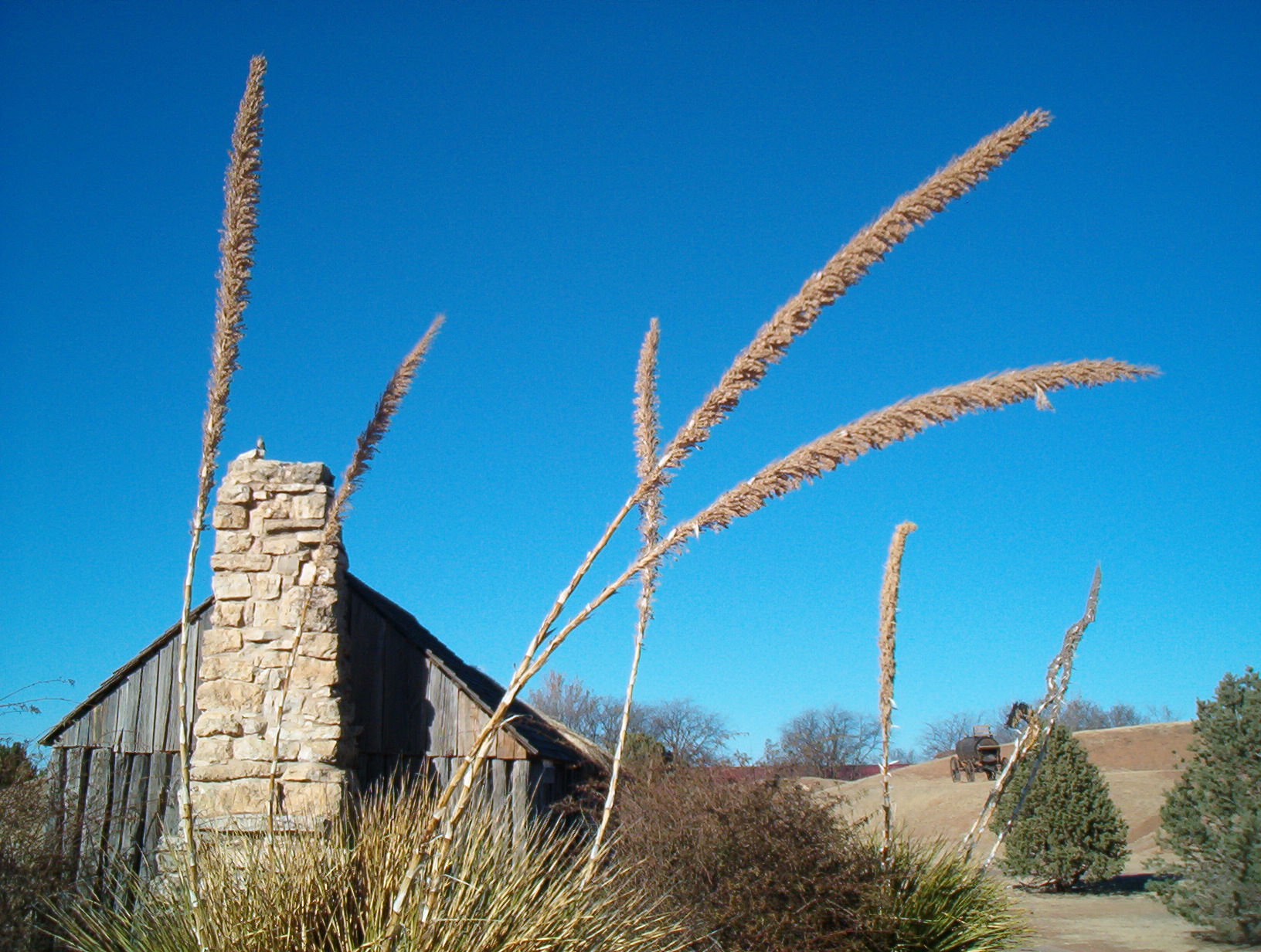 1800s Ranch house — at the National Ranching Heritage Center. At Texas Tech University in Lubbock, Texas. Self made.